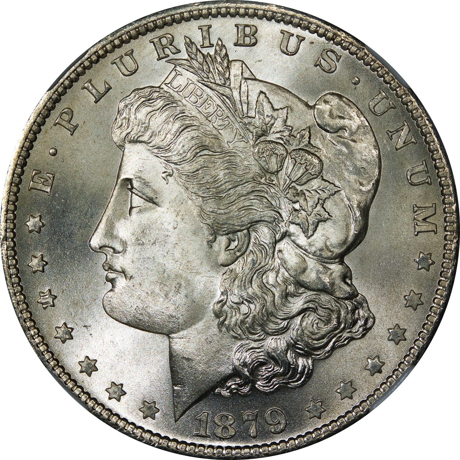 The obverse of the Morgan silver dollar. This particular coin was minted in 1879 at the San Francisco Mint (S mint mark) and is graded MS67+ by the Numismatic Guaranty Corporation (NGC). It is housed in a plastic NGC EdgeView holder (one can see the minimally viewable white prongs holding the edge of the coin).